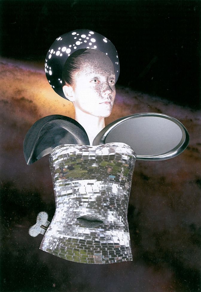 the zodiac attack. handmade, scissor n´glue collage. october, 2009. Some of the original tags: futurism, robot, cyborg, post-human